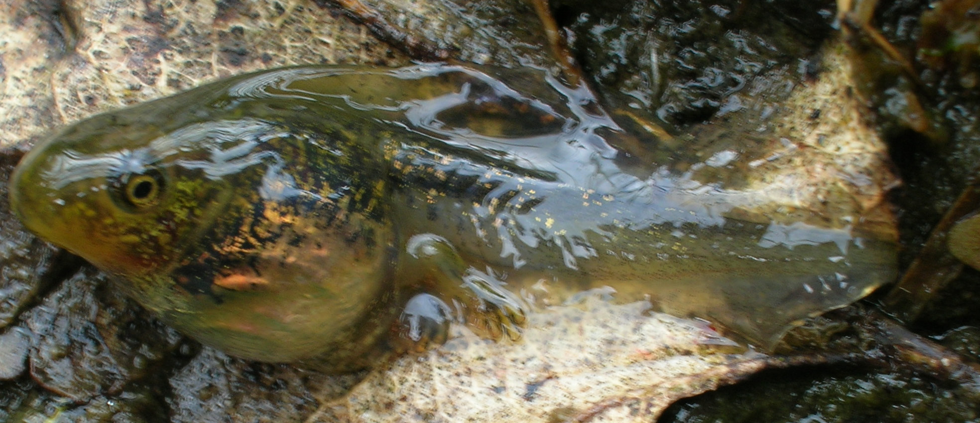 Larva of Hyla arborea, notice the big shiny belly with the spiral gut. Achterhoek, the Netherlands